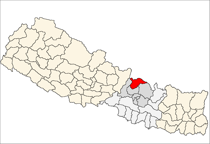 FrenchCarte de localisation dudistrict de Rasuwa(wp-FR),au Népal (wp-FR).EnglishLocation map ofRasuwa District(wp-EN),in Nepal (wp-EN).